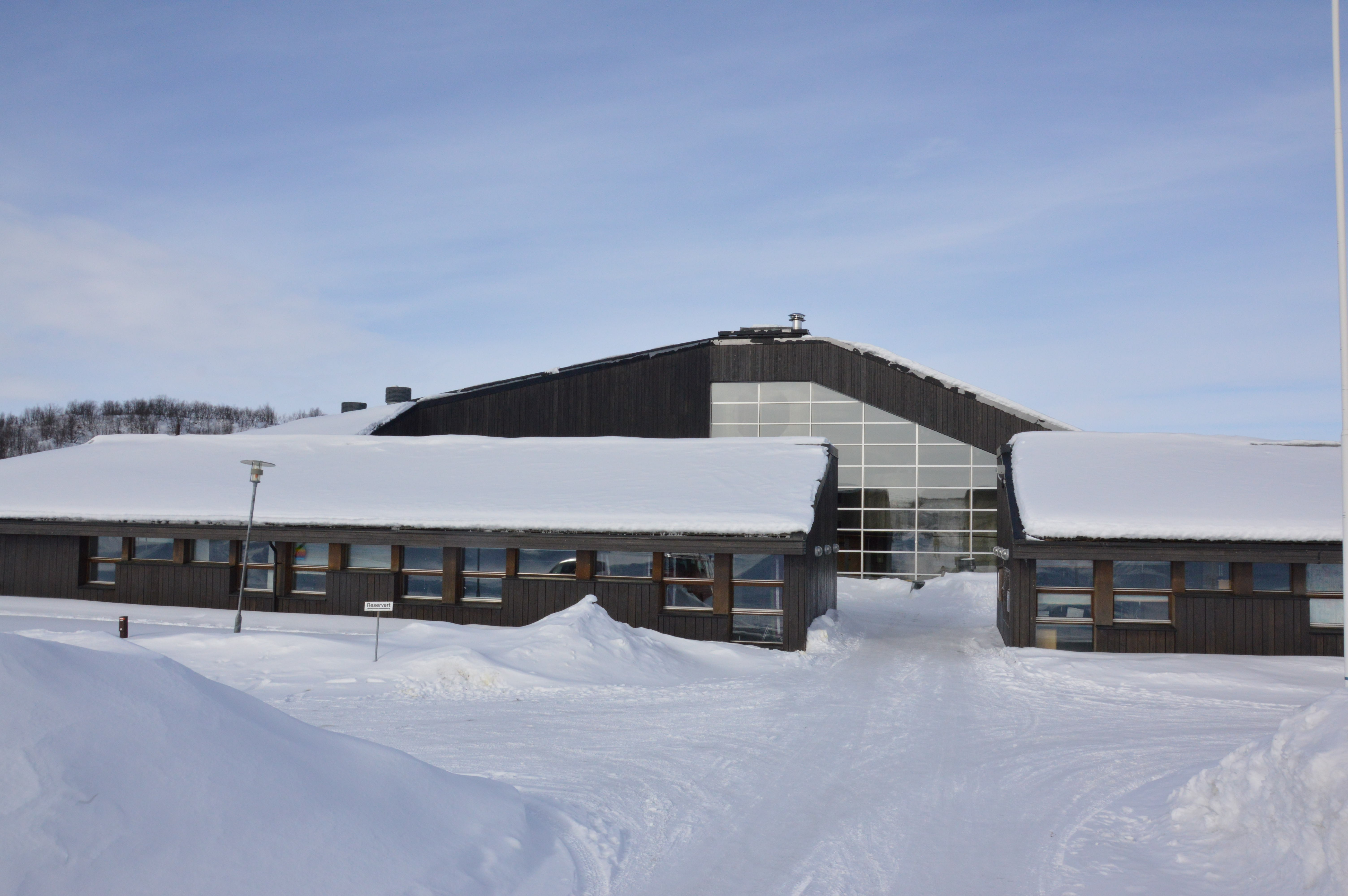 Beaivváš, the Sami National Theatre in Kautokeino/Guovdageaidnu, Finnmark, Norway/Sápmi Davvisámegiella: Beaivváš Sámi Našunálateáhter